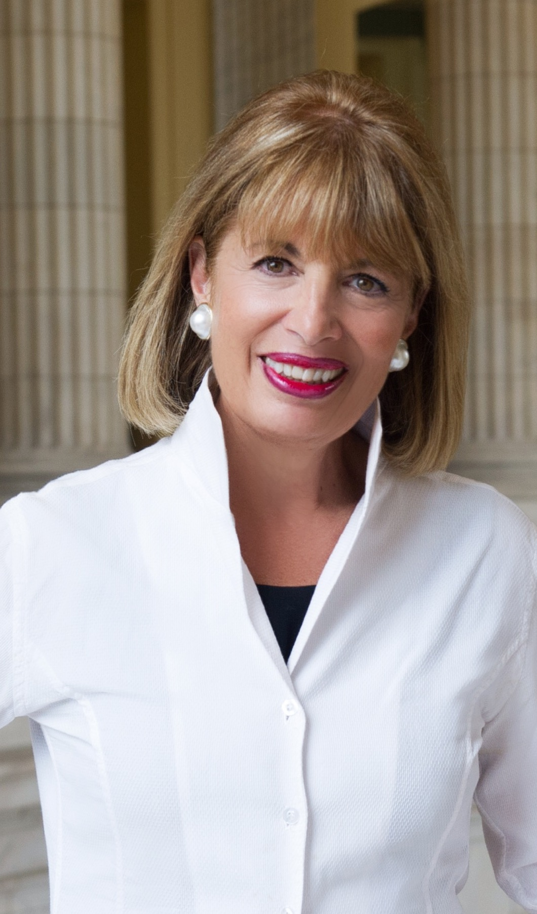 Jackie Speier's official photo